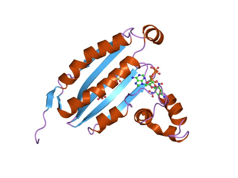 Cartoon representation of the molecular structure of protein registered with 1i5d code.